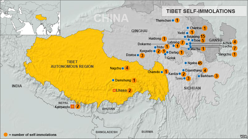 Map of Tibetan Self-Immolations, Updated April 25, 2013